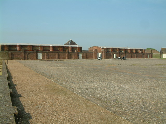 Tilbury Fort, Essex Gunpowder storage magazines at Tilbury Fort.